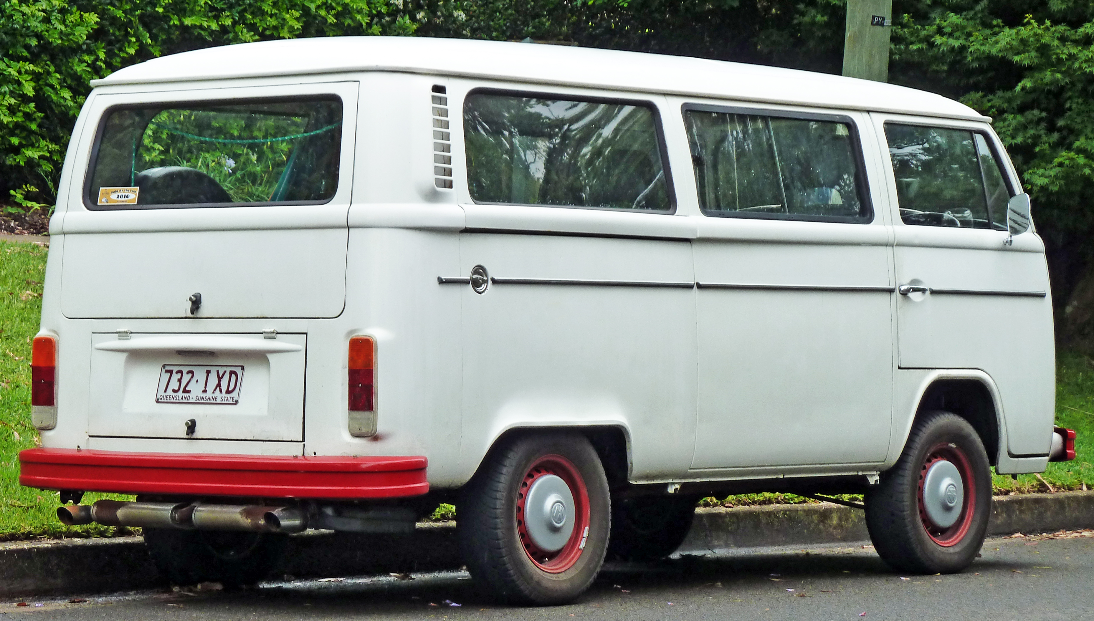 1973–1980 Volkswagen Kombi (T2) van. Photographed in Killara, New South Wales, Australia.